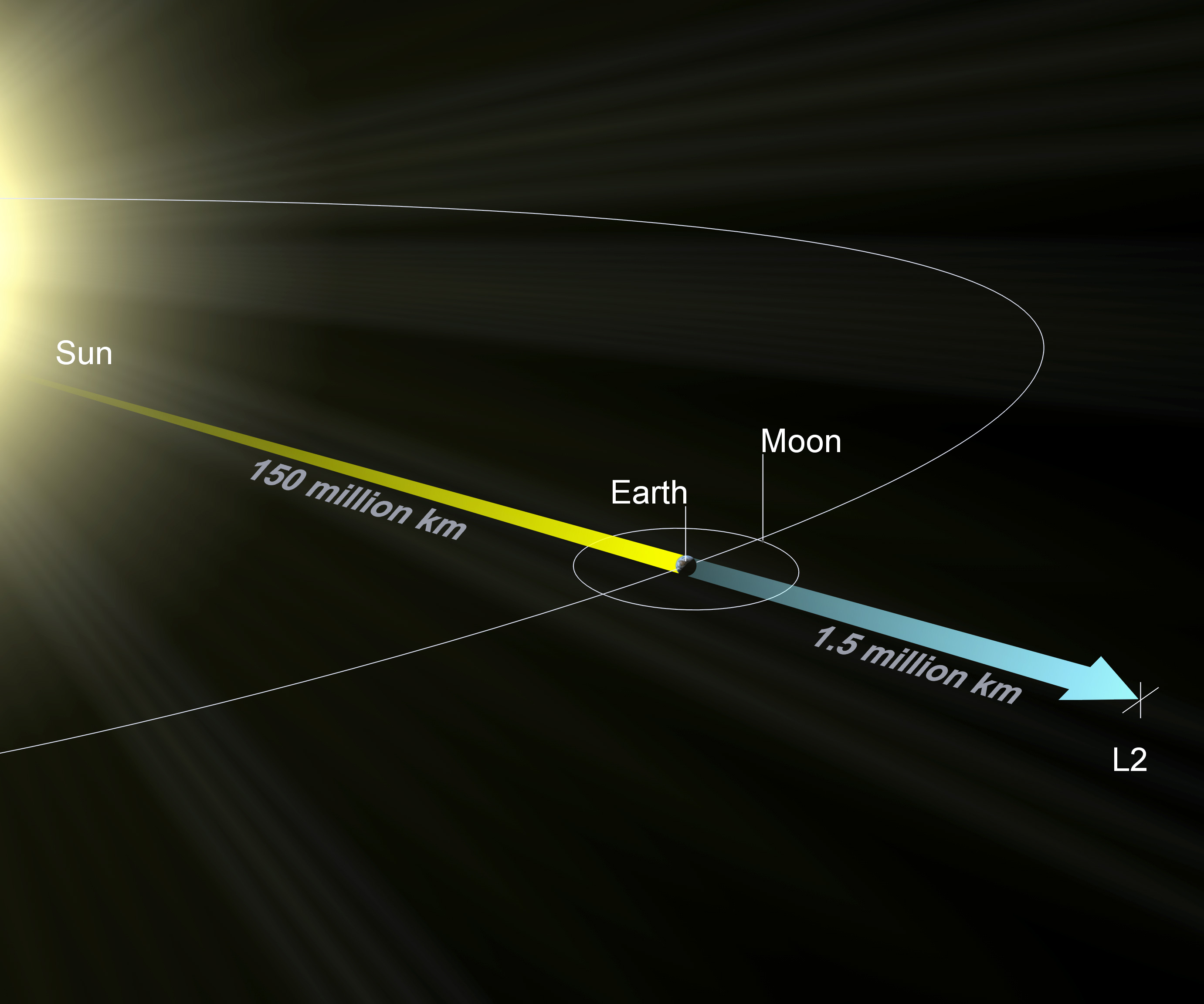 Position of the Lagrangian Point 2 (Lagrange Point 2) Location of the halo orbit of the James Webb Space Telescope Planned location of the Gaia spacecrafts lissajous orbit